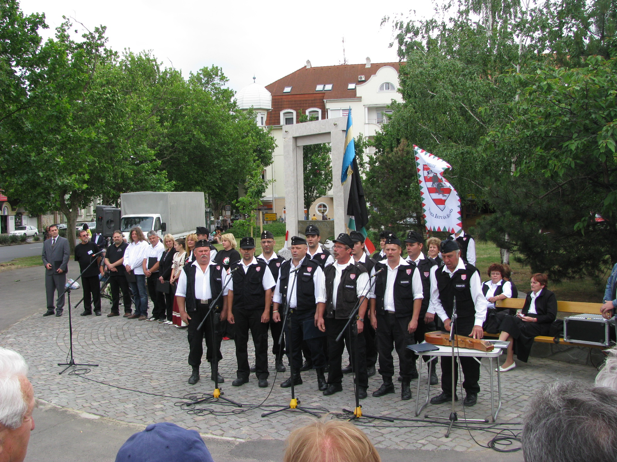 The Magyar Gárda (Hungarian Guard) in Békéscsaba on 06.04.2009, Trianon-day